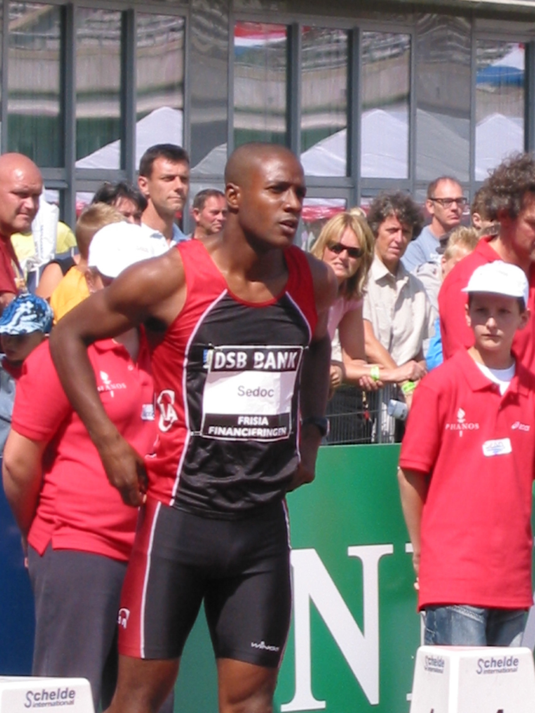 Dutch Championships 2007, Amsterdam, Gregory Sedoc, 110m hurdles